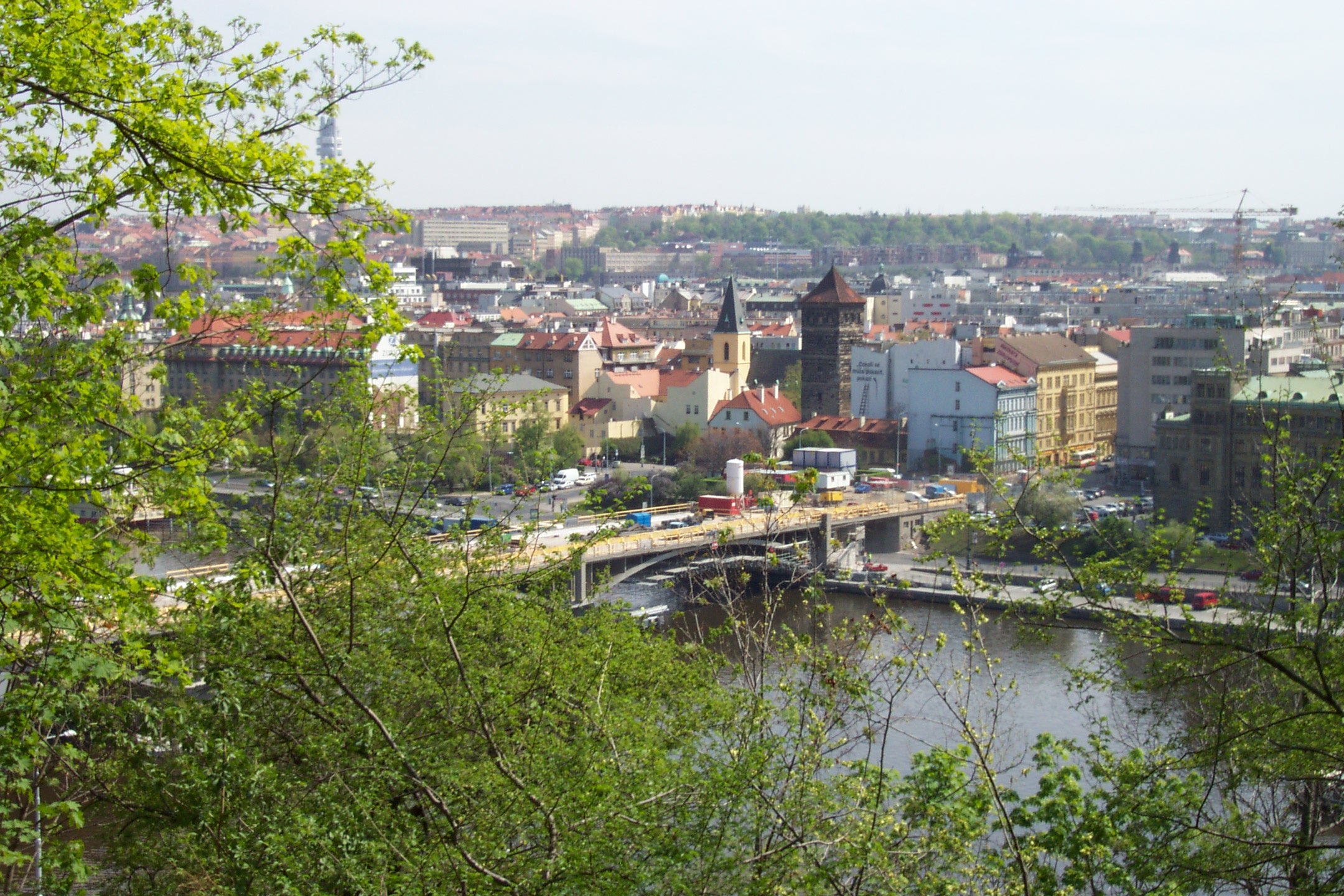 Prague, Holešovice, reconstruction of Štefánikův most bridge